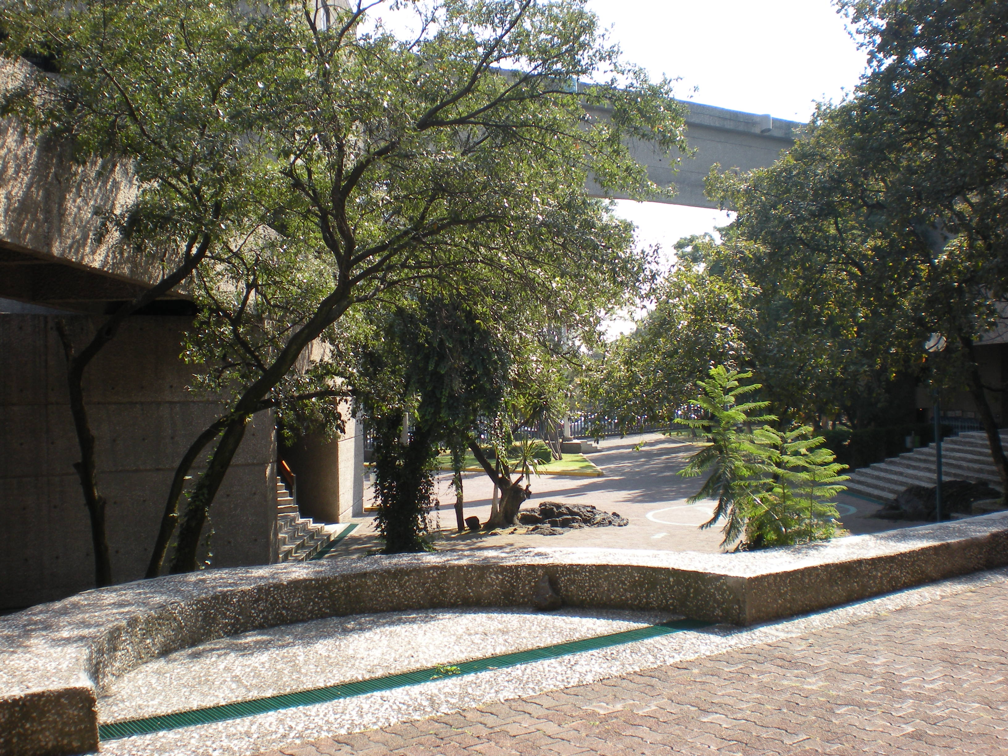 This is the view from the old entrance, now closed, to the left Lauro Aguirre auditorium, UPN Mexico